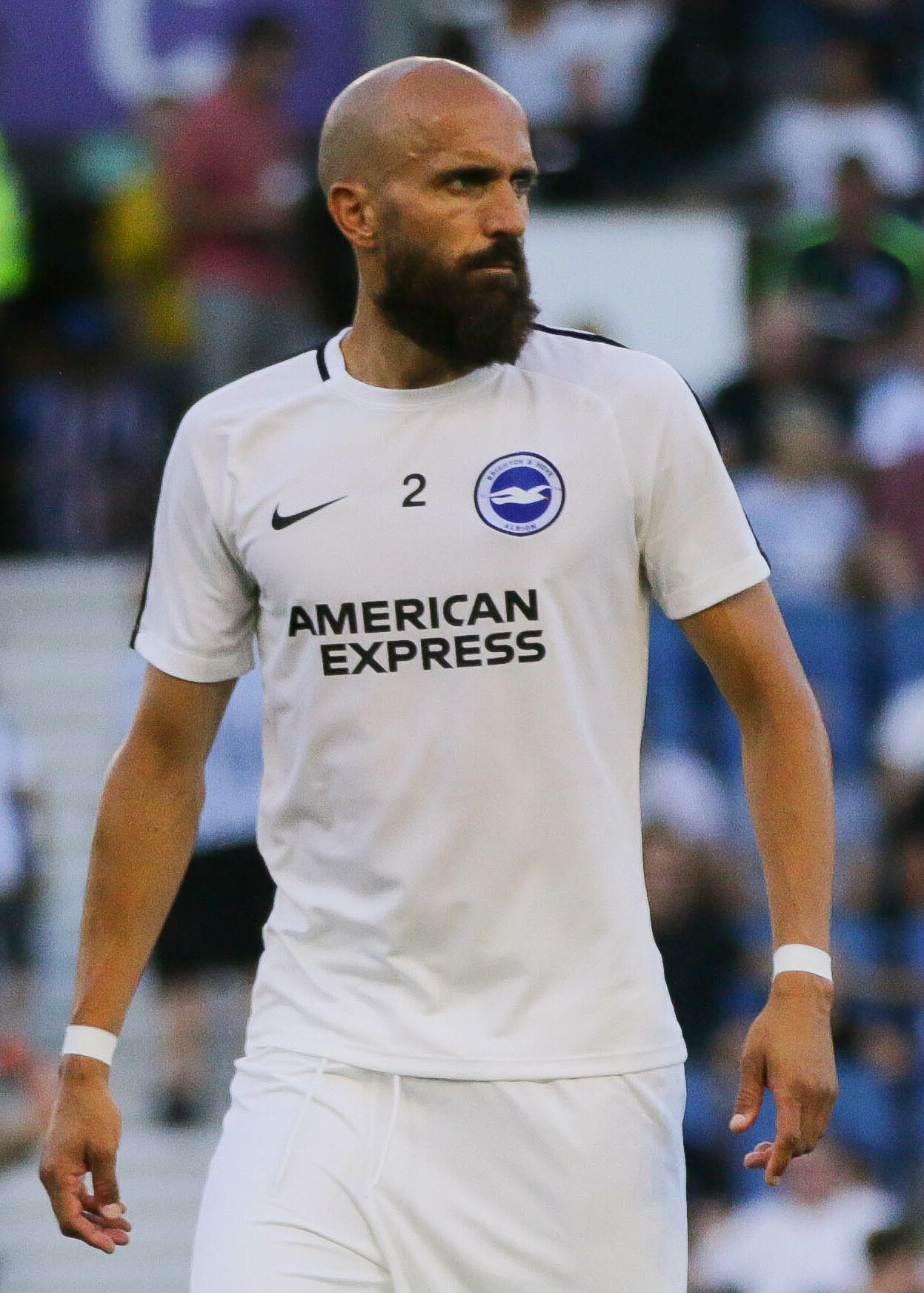 BHA v FC Nantes pre season 03 08 2018-228.jpg